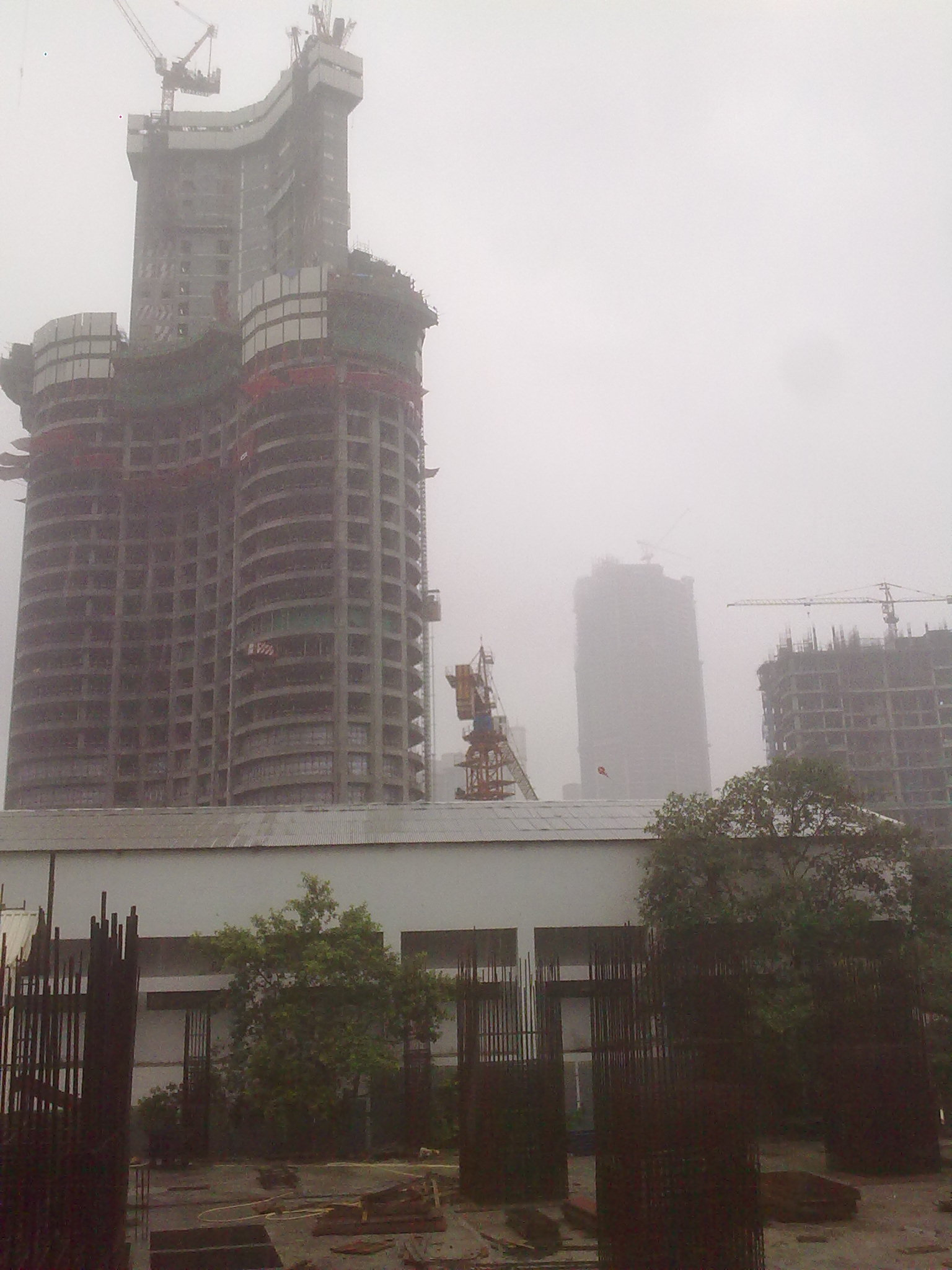 World One tower under construction